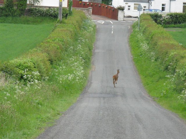 Roe Deer at Arniston The deer had just crossed the barley field to the left, and after heading away turned back and went into the field on the right.